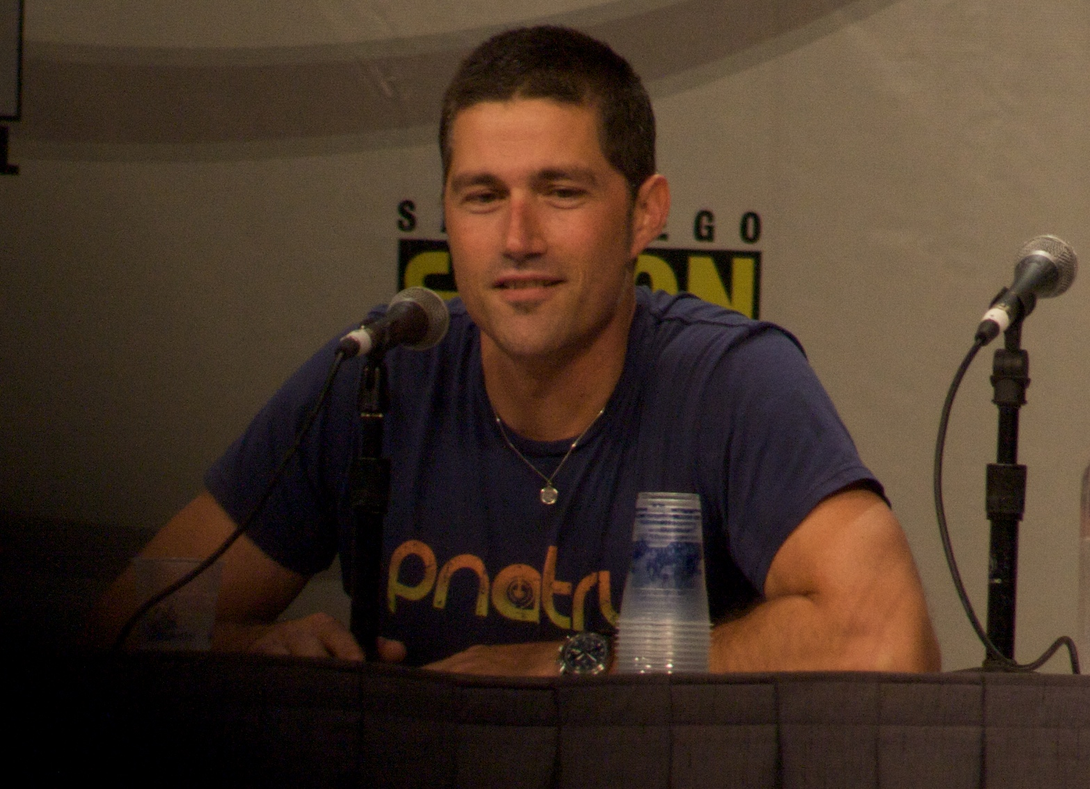 Matthew Fox at the 2008 Lost Comic Panel.